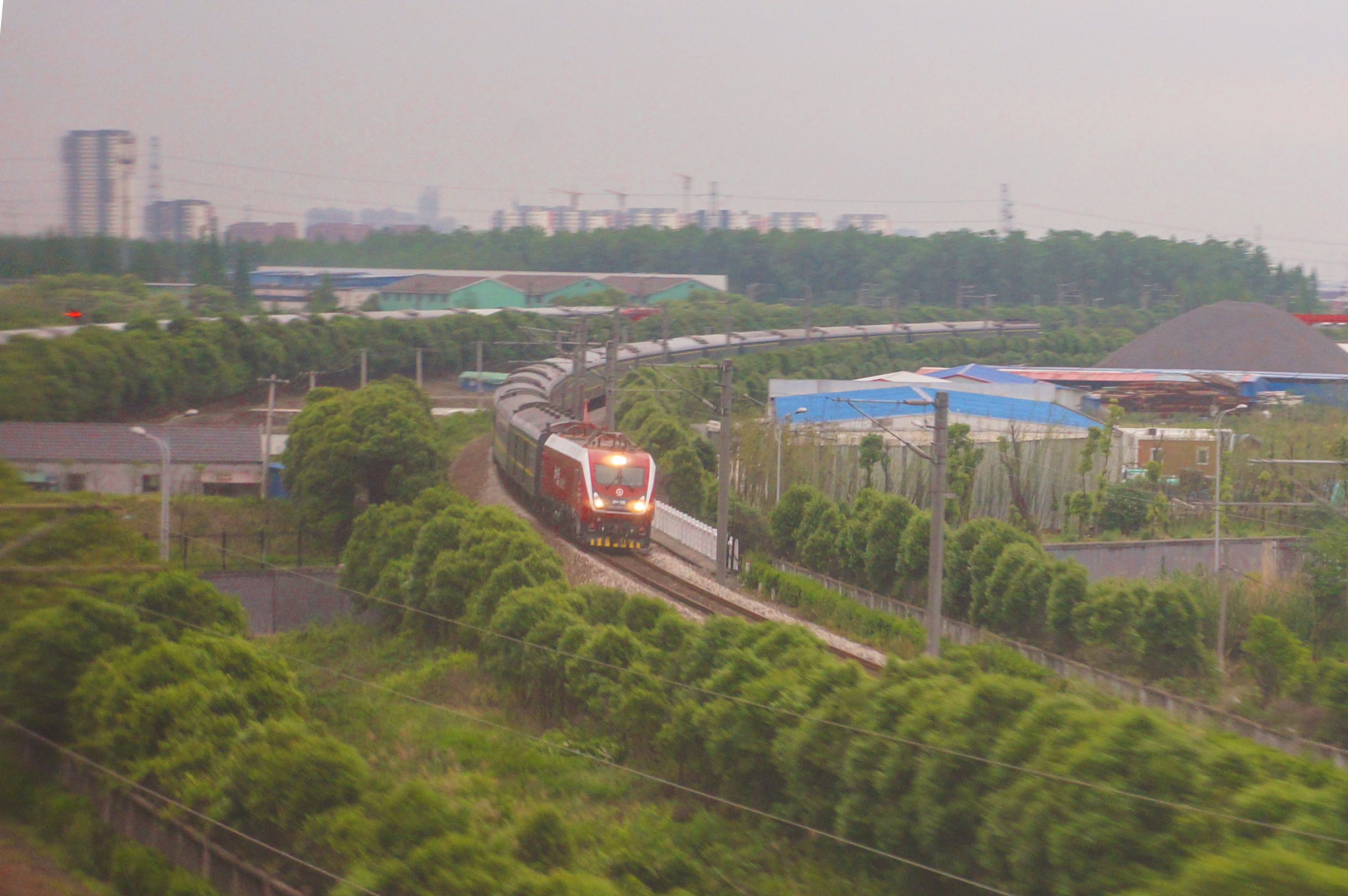 201705 HXD1D-0112 hauls K372 approaches to Zhengyi. Taken on G7376, then K372 exceeded us at Suzhou Yuanqu, finally we exceeded it again during approaching to Suzhou Station